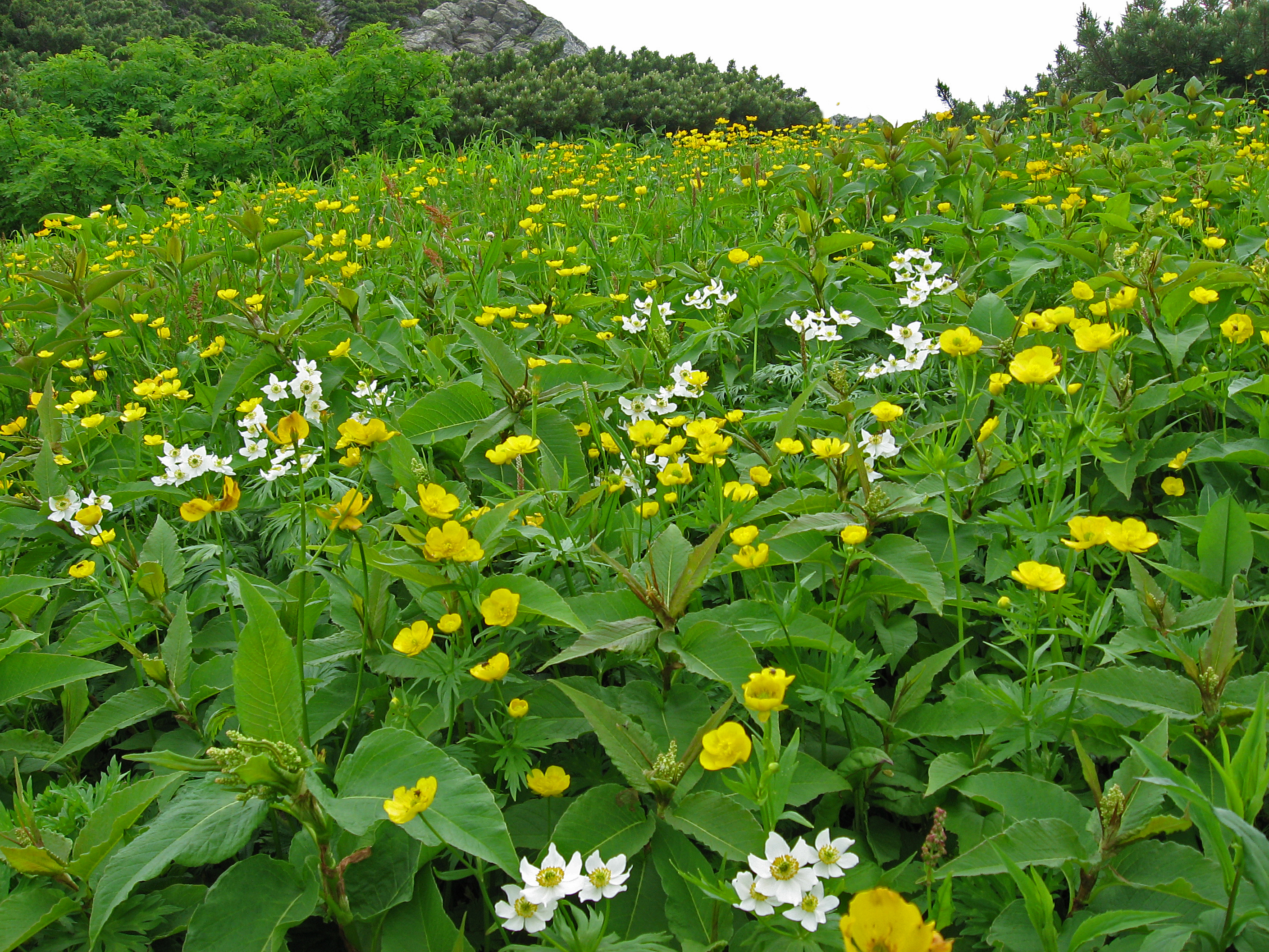 Alpine plants of Mt.Kitadake, Yamanashi, Japan.